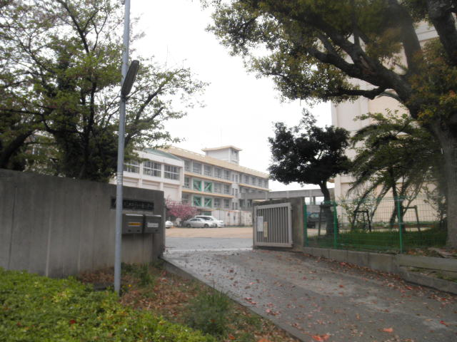 Ohkura junior high school